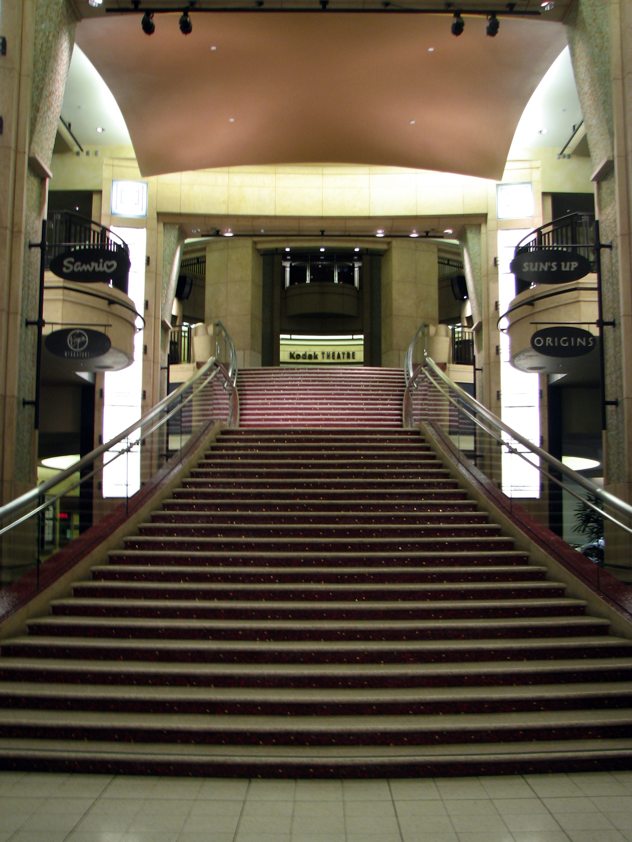 The glamorous parade staircase of the Kodak has seen many celebrities. The carmine-ruby-gold glass mosaics add the sequins effect that is tremendously magnified by strong lights and flash fotography.